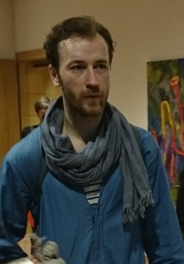 Andrius Katinas